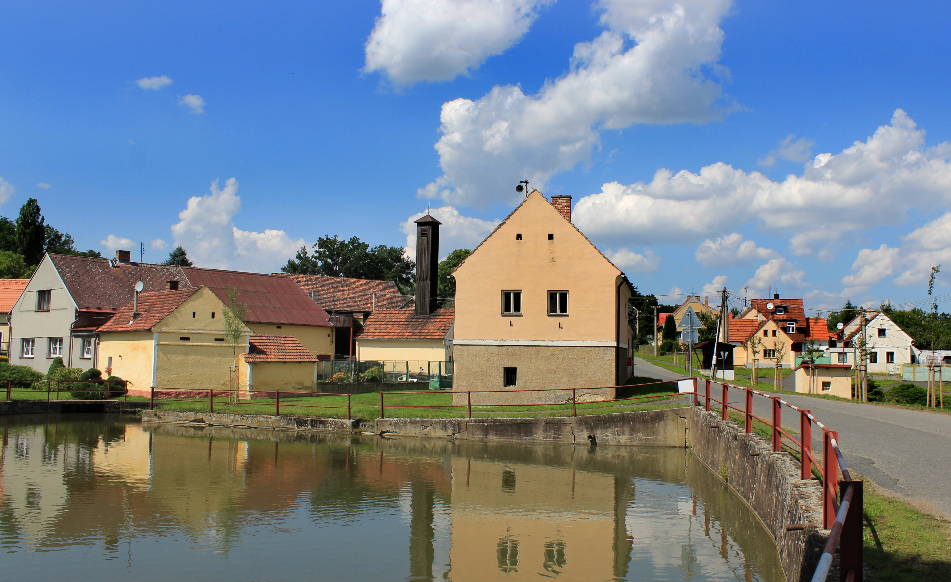 Common pond in Malonice, part of Blížejov, Czech Republic.